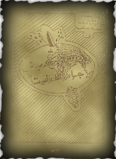 The cover of the Manchester manual -- “The Manchester Manual is literally an overarching basic guide that simply covers just about everything. It covers how to conduct general combat operations, how to escape and evade capture and how to behave in captivity,” said the JTF source. “There is even a chapter on how to poison yourself using your own feces.”